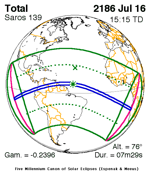 Eclipse Predictions by Fred Espenak, NASA/GSFC". Prediction for 16 July, 2186